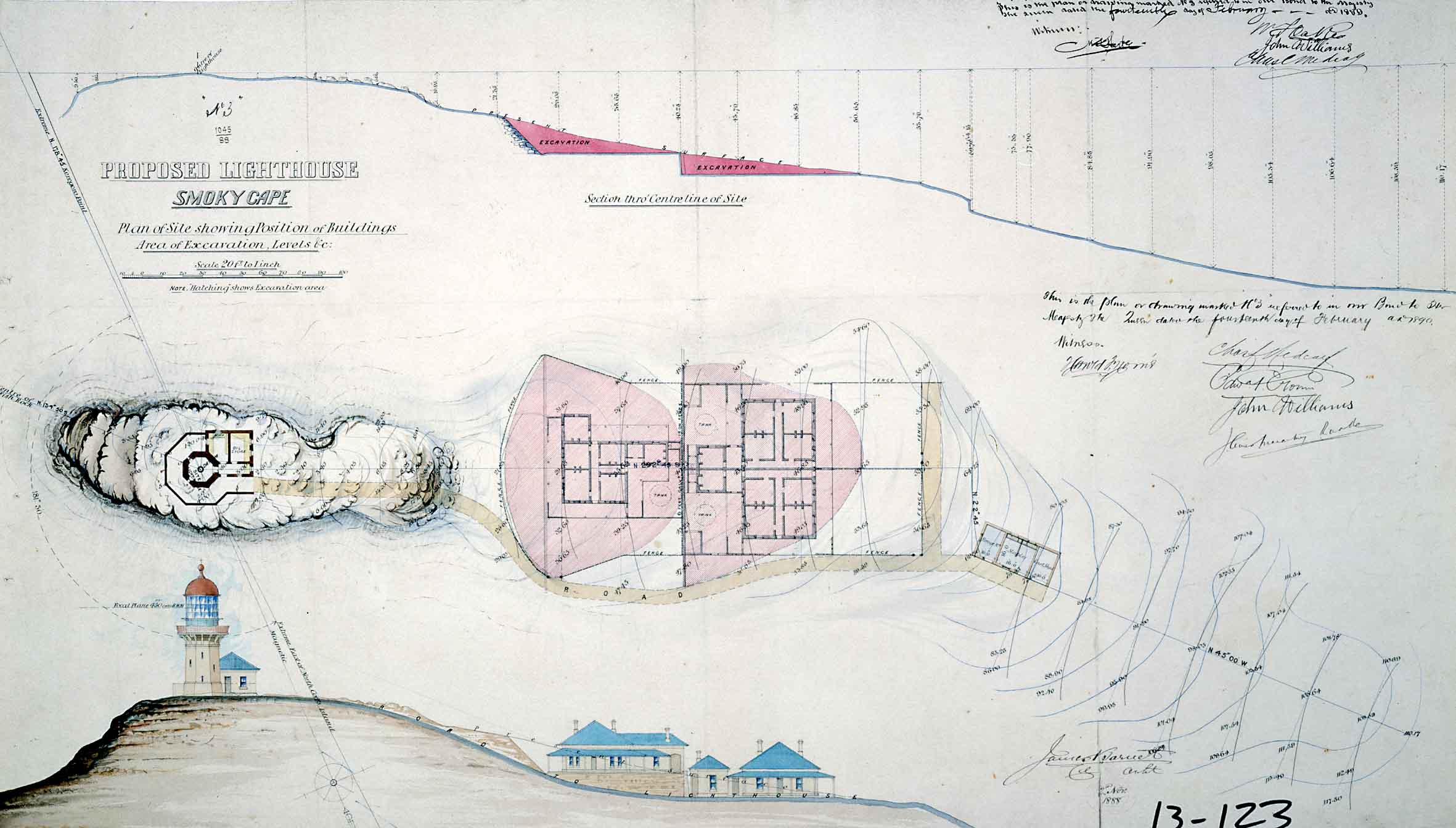 Smoky Cape Light, plan of site showing position of Buildings: Area of Excavation: Levels etc. by James Barnet - NSW Colonial Architect, 1888